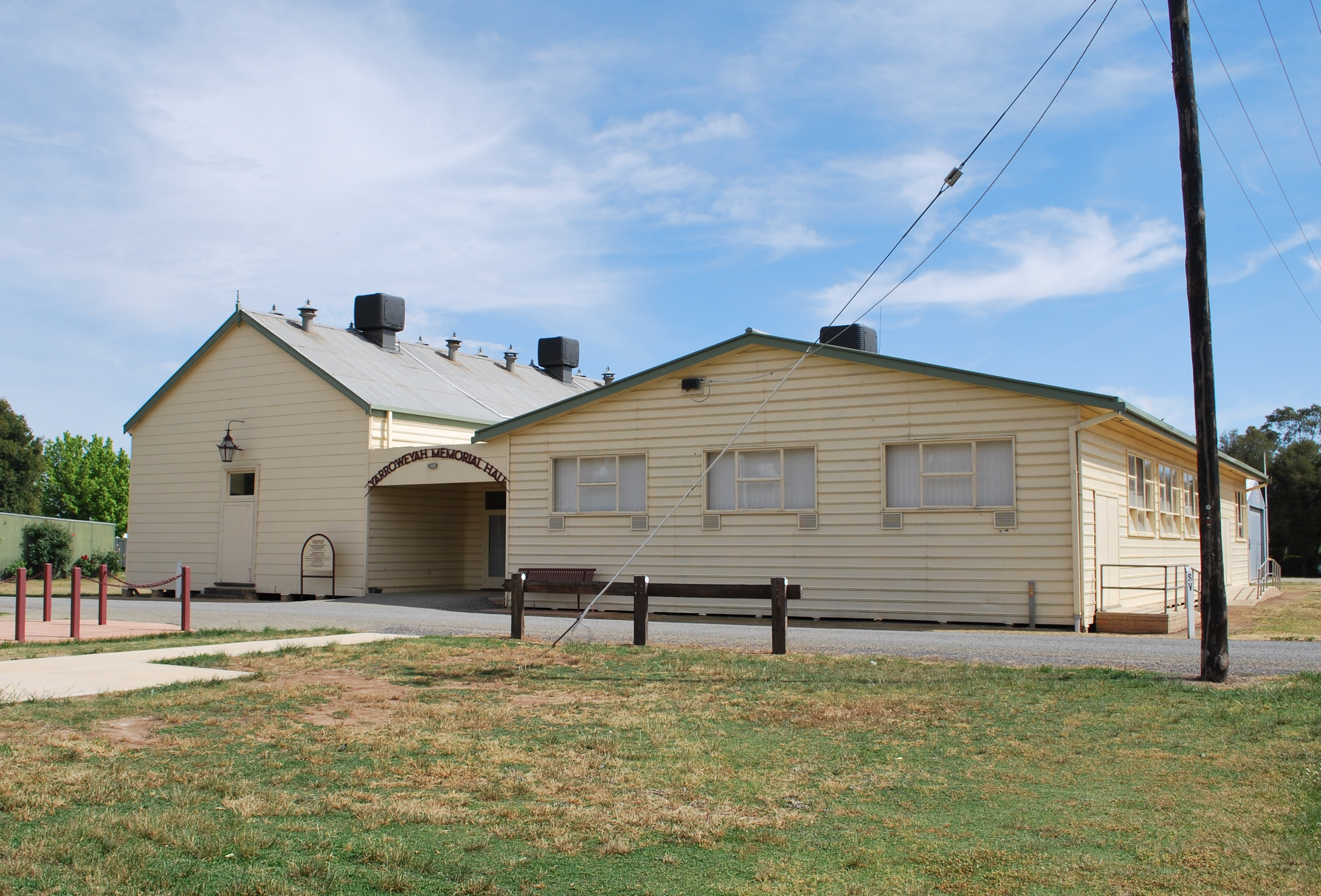 Memorial Hall at Yarroweyah, Victoria